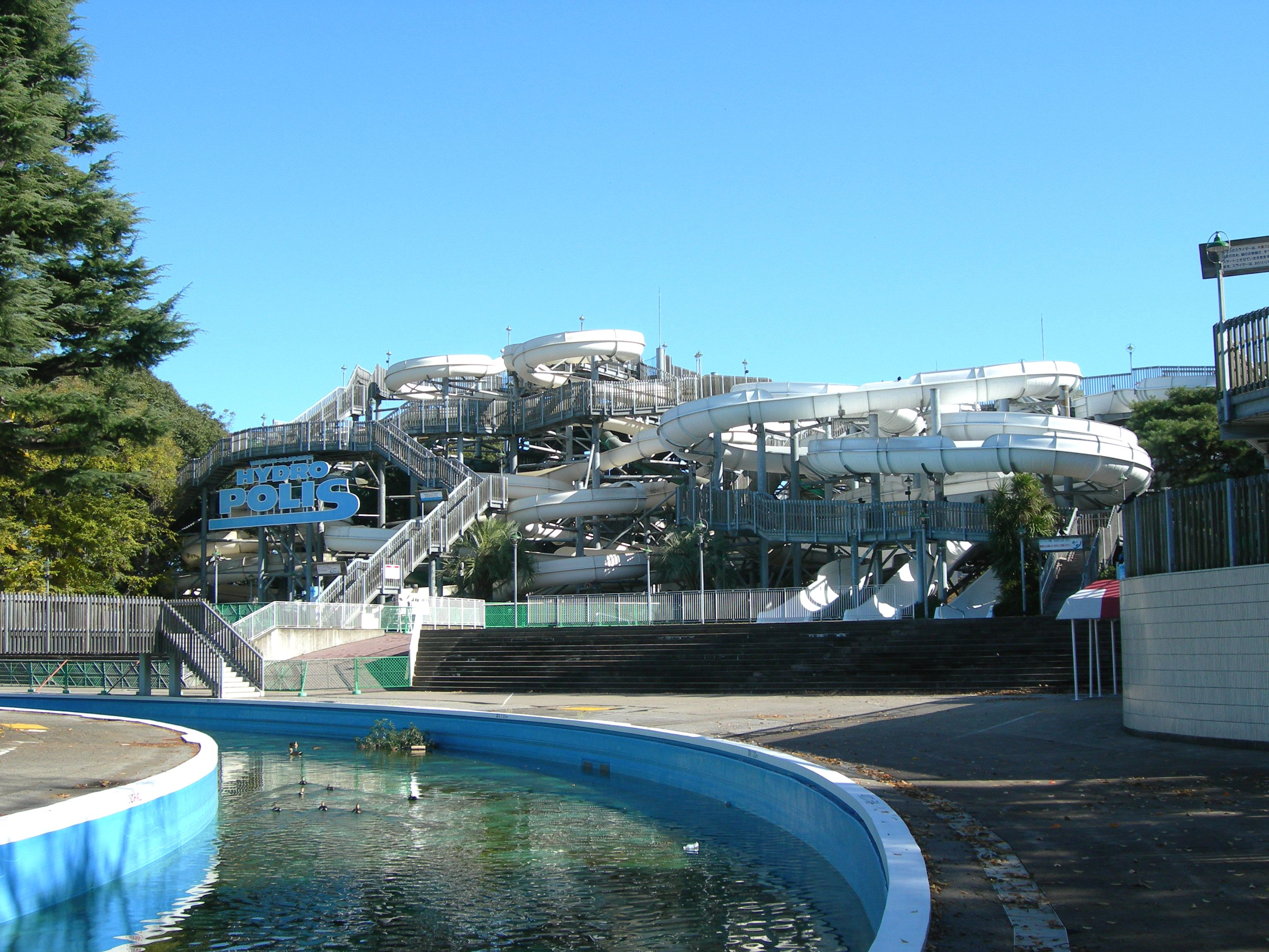 The "Hydropolis" water slides at Toshimaen amusement park in Tokyo, Japan